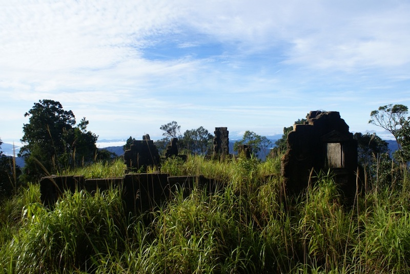 Historic ruins of French villas